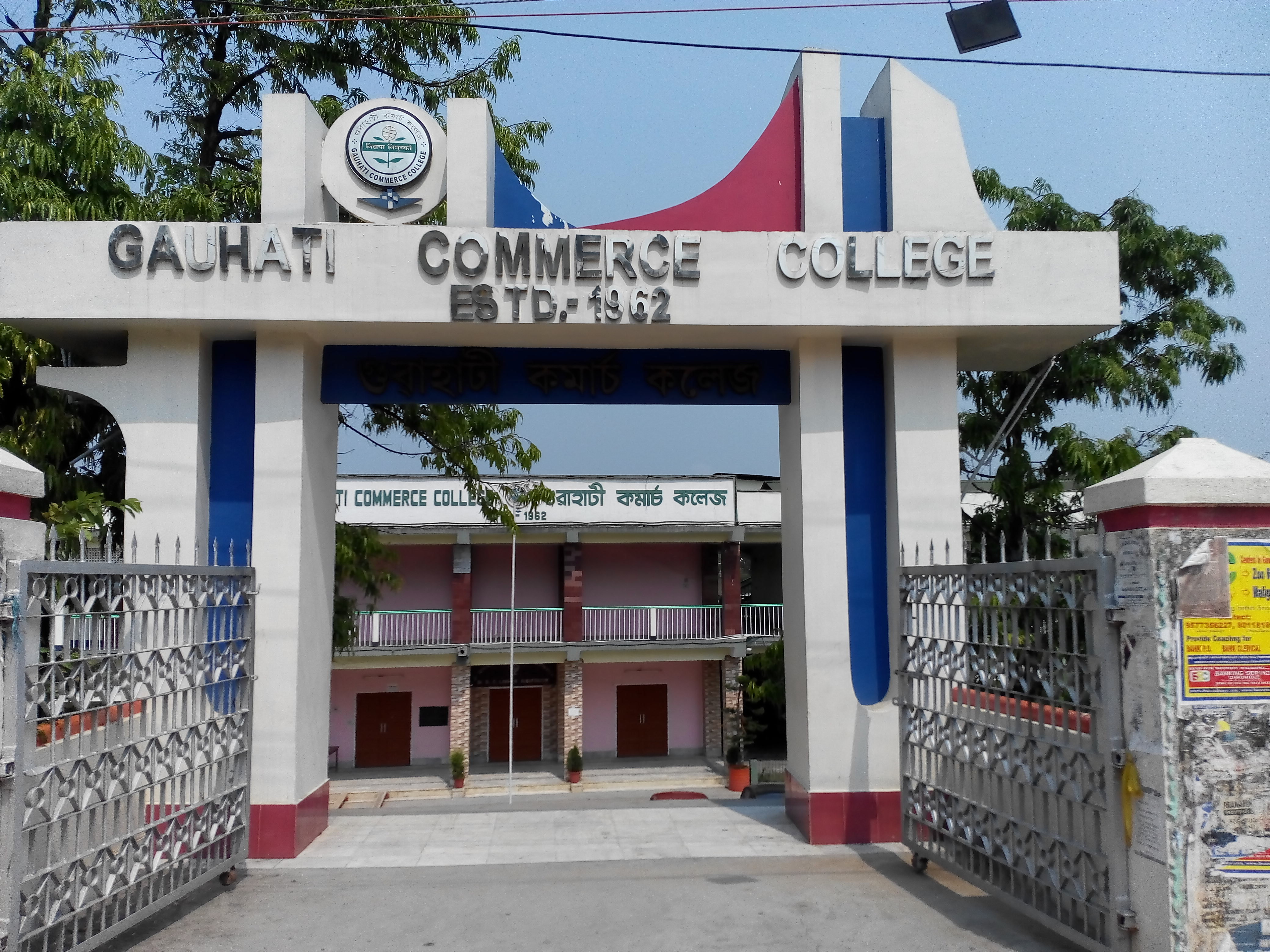 Gauhati Commerce College